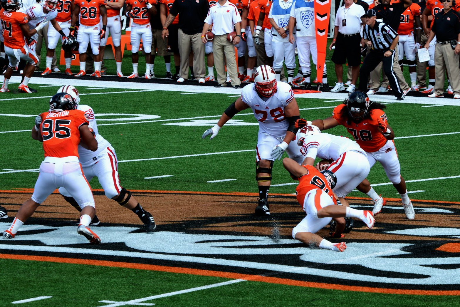 Oregon State DE Scott Crichton against Wisconsin in a 2012 match